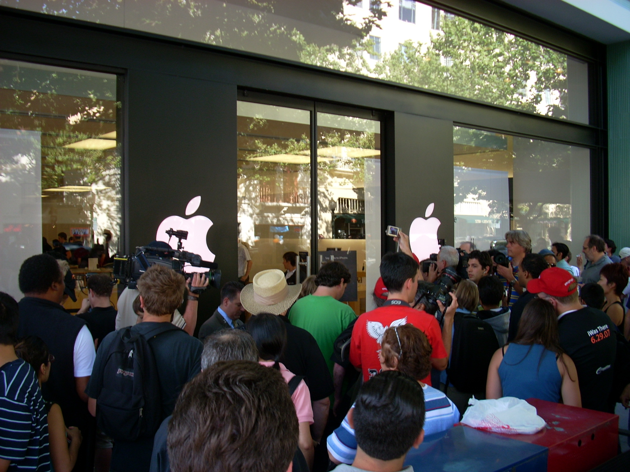 Apple Store, University Avenue, Palo Alto, CAUnveiling!